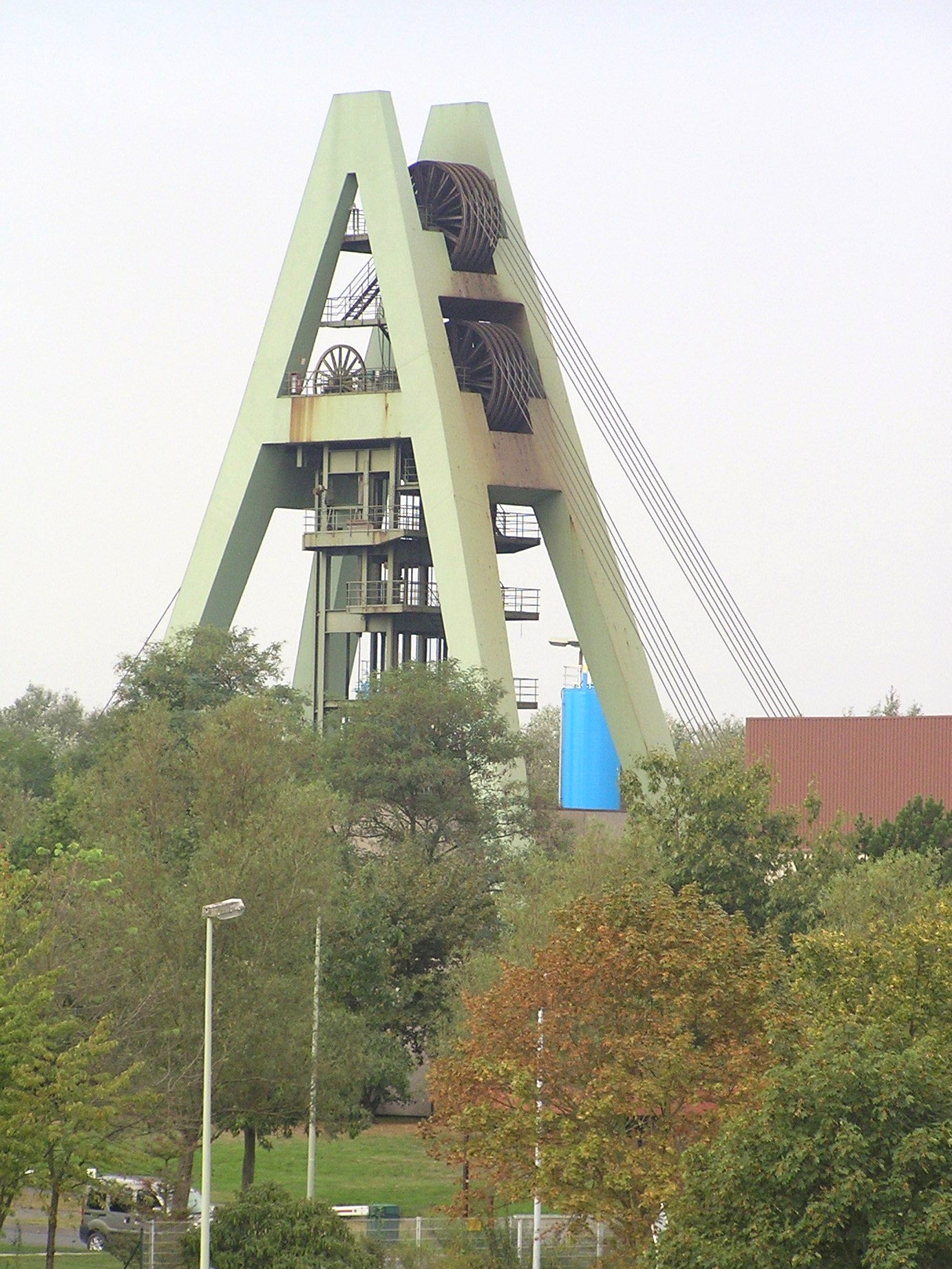 Mine shaft 8 of the Auguste Victoria mine, Haltern, Germany.